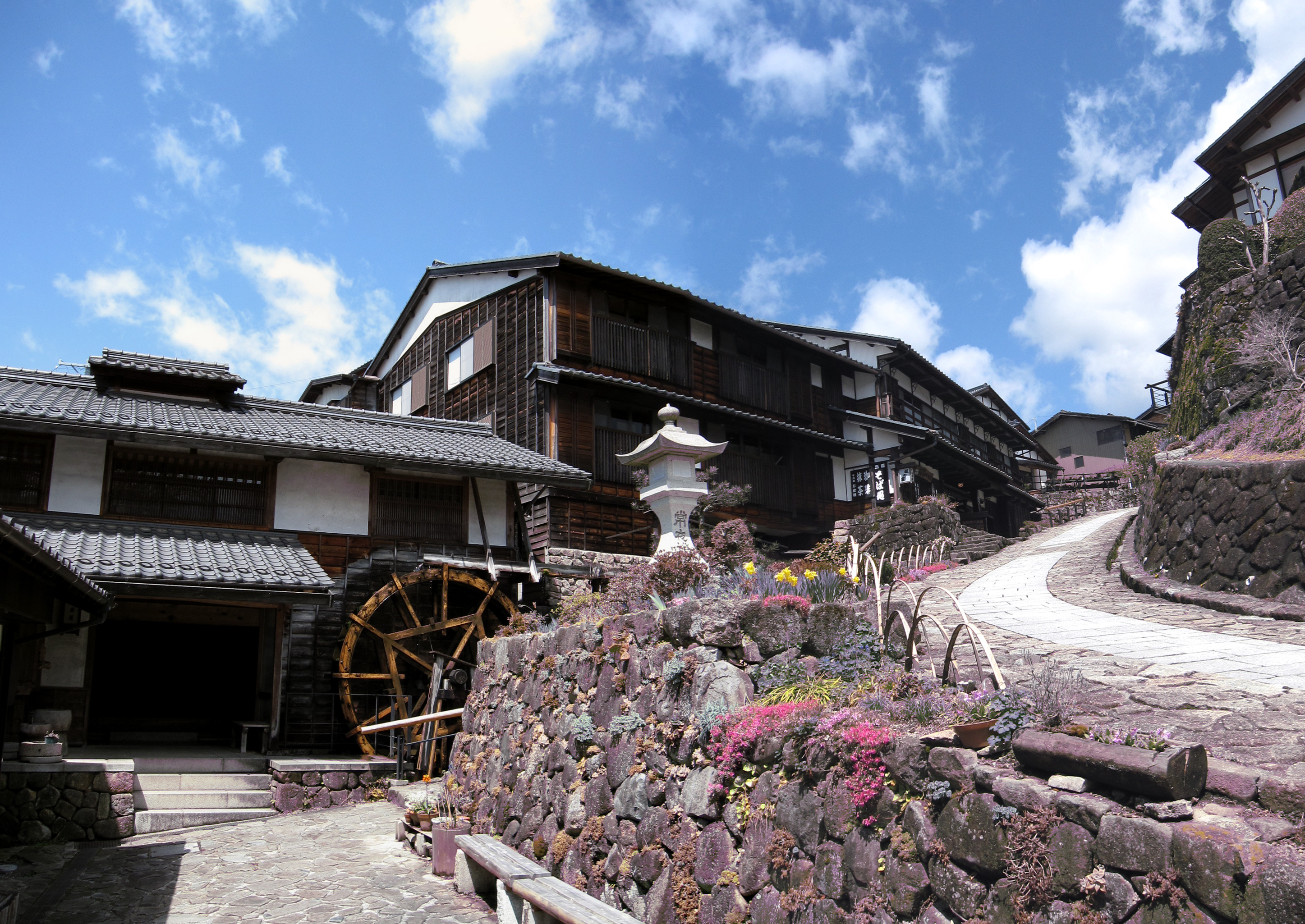 Magome-juku (馬籠宿) in Gifu Prefecture, central Japan, in Spring of 2009 with cherry blosoms.